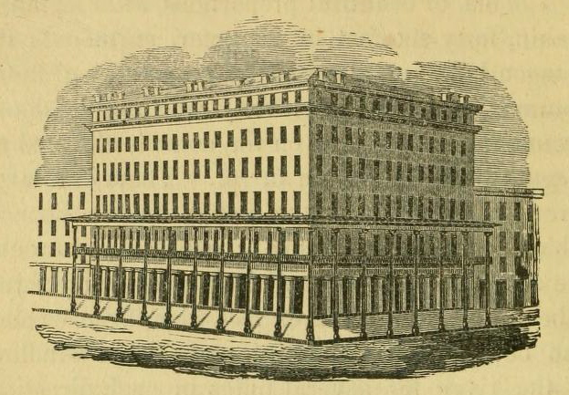 1845 engraving of The Verandah, New Orleans. Hotel building at downtown river corner of St. Charles and Common Streets.